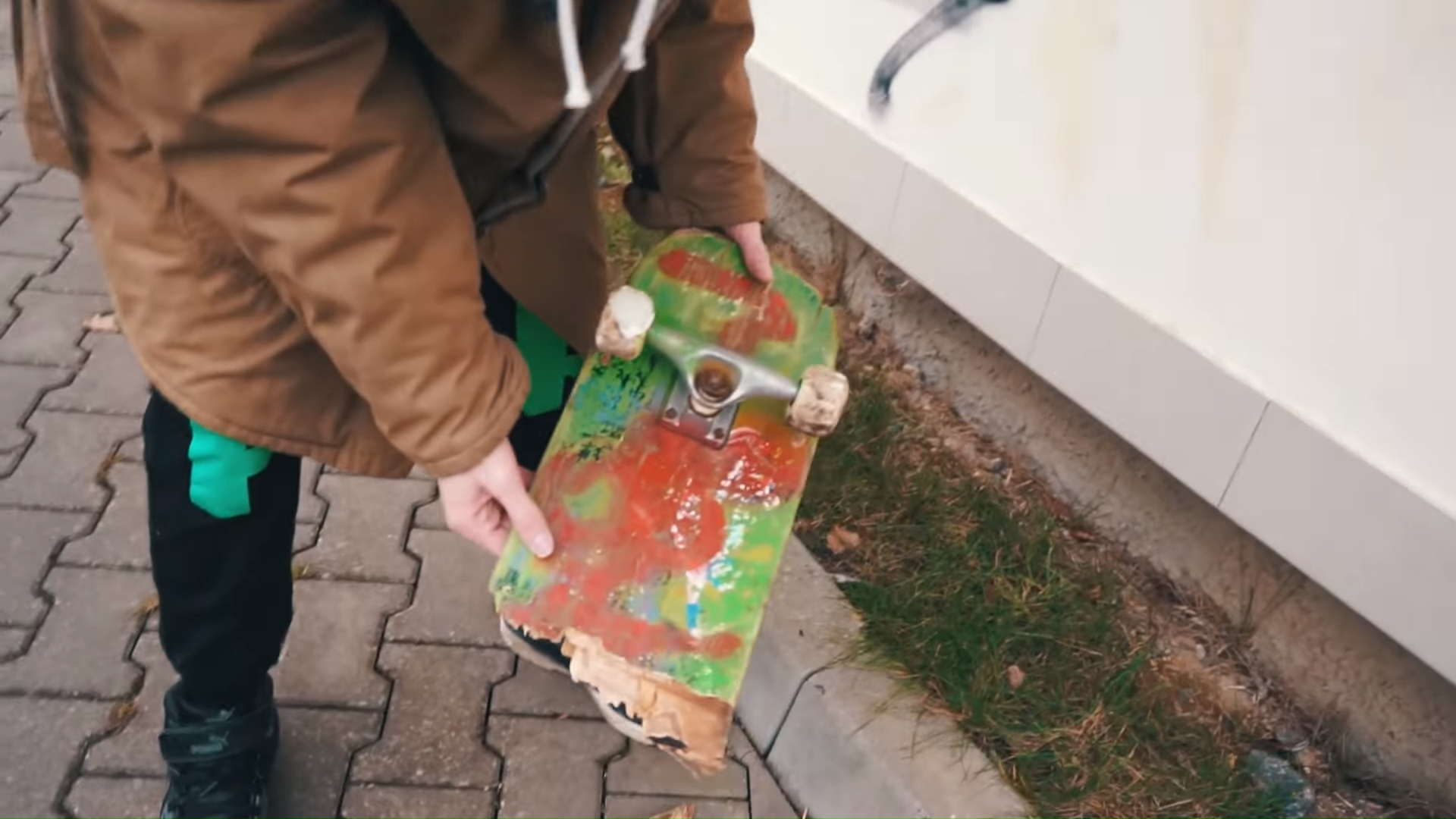 Oly – Czech YouTuber with the broken skateboard